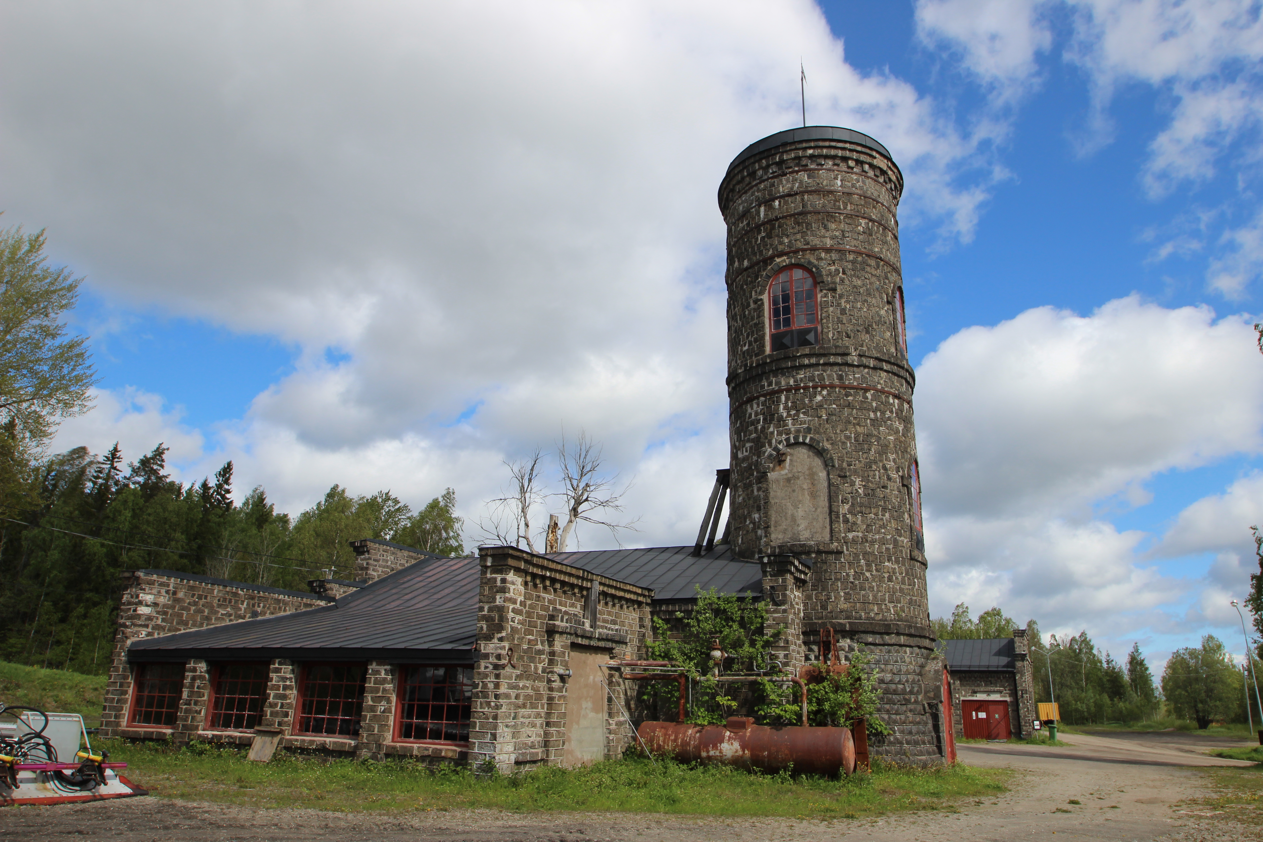 Headframe of the mine Gröndalsgruvan in the Klackberg mining fields, Norberg, Sweden.